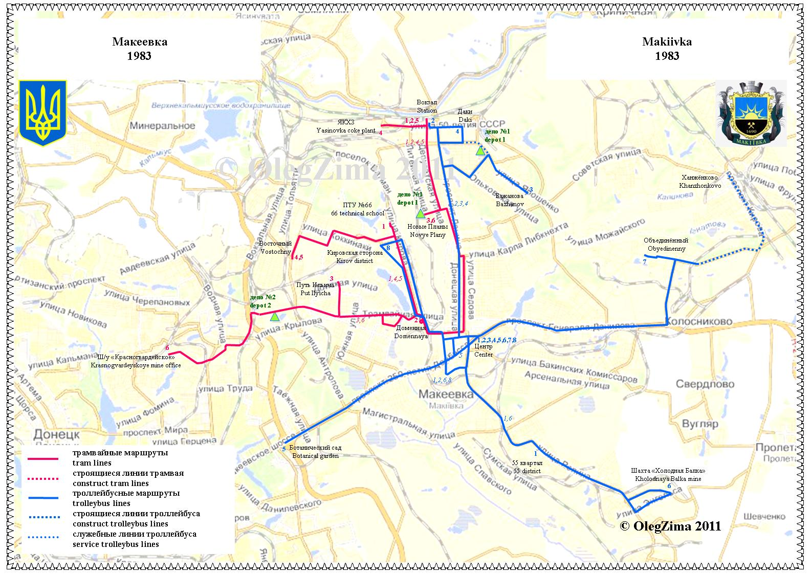 map of transport of Makeevka (Makiivka) city at 1983